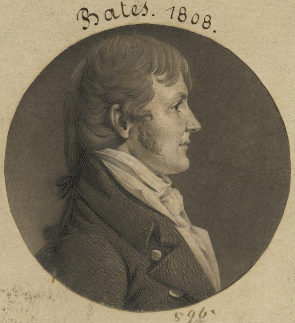 James Woodson Bates, Arkansas Congressman and Judge